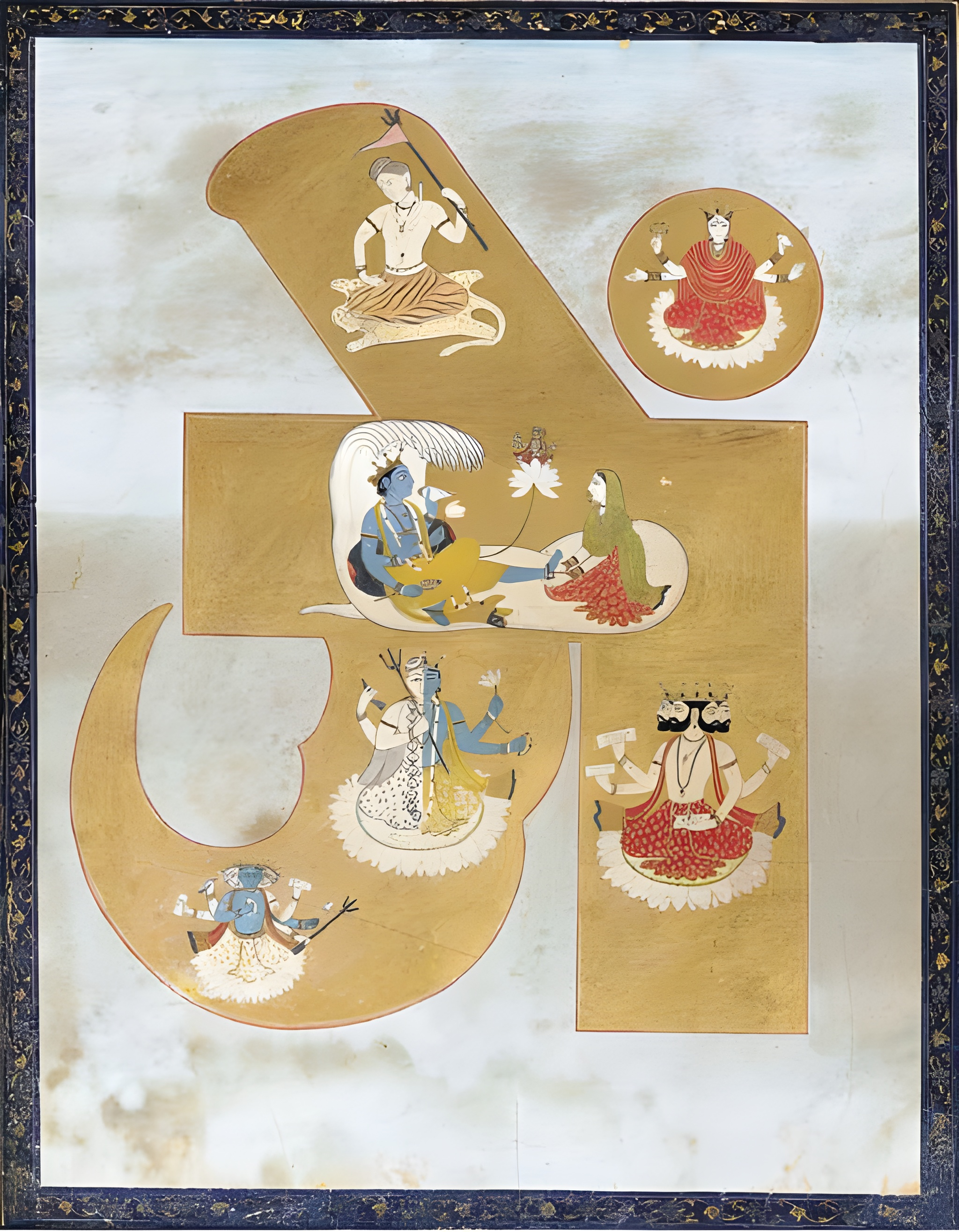 A Pahari painting of an OM containing deities, c.1780-1800Source: Aug. 2004)"A Hindu Tantric Painting. India, Pahari, circa 1780-1800. Depicting from top to bottom: Shiva, Sakti, Vishnu on his conch with Brahma sprouting from his navel and Lakshmi, Harihara, four-headed Brahma, and the Trimurti below, painted against a gold ground forming the stylized seed syllable Ohm, surrounded by a dark blue floral border with gold painted scrollwork. 12¼ x 9 5/8 in. (31.1 x 24.4 cm.)."